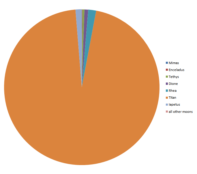 Pie chart of the masses of Saturn's moons. Mimas and all the others put together are too slight to be visible.